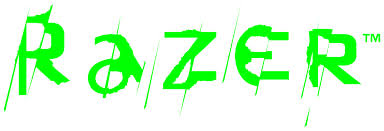 Older logo of Razer USA